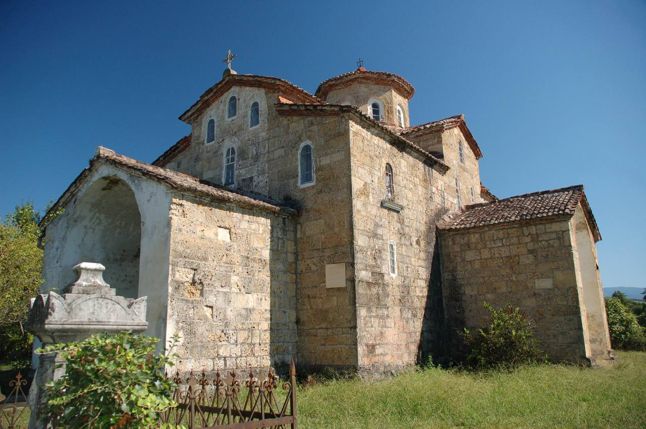 Temple in the Lykhny village, Abkhazia